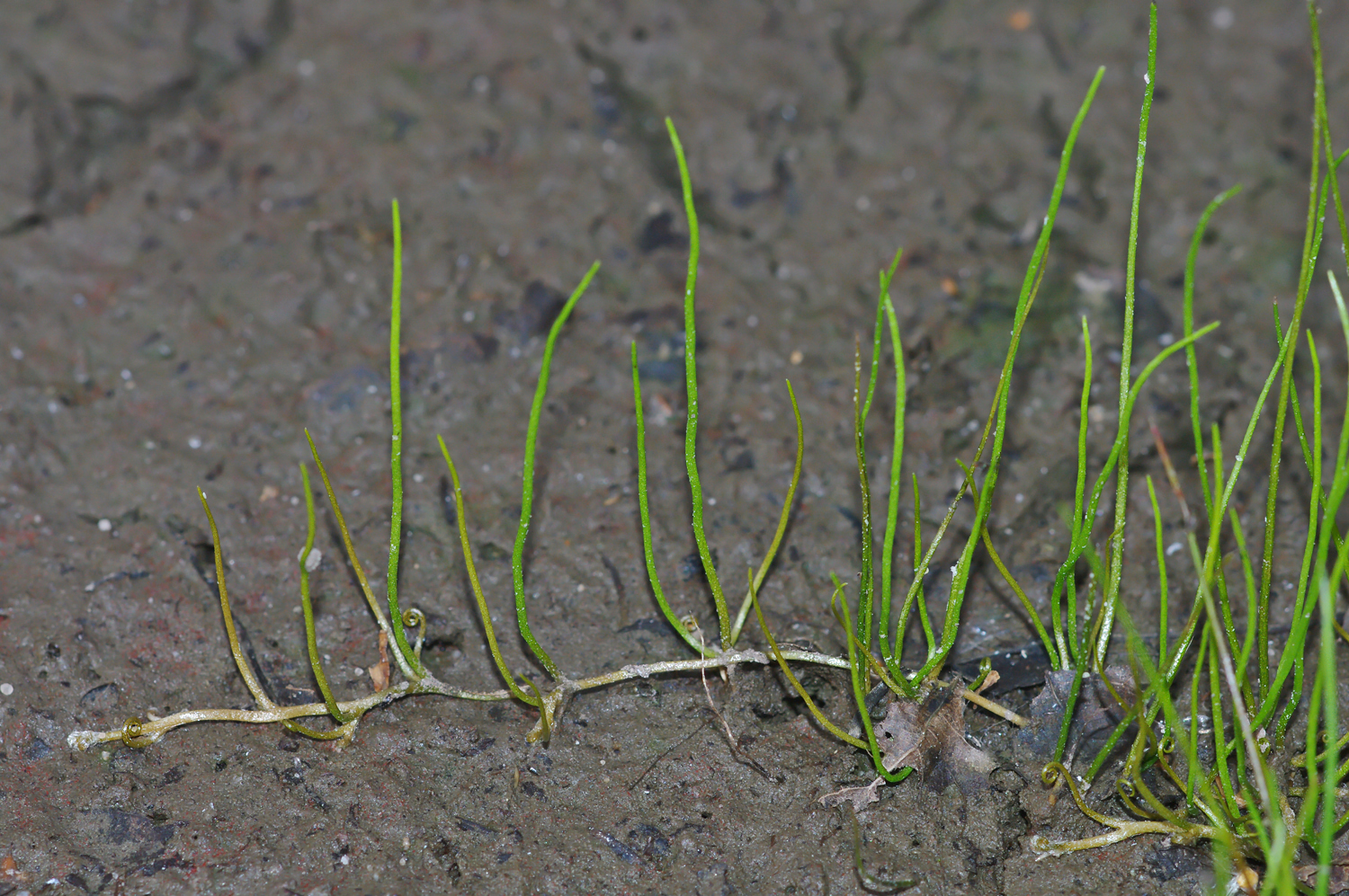 Single creeping plant of the fern species Pillwort, Pilularia globulifera, on wet ground.